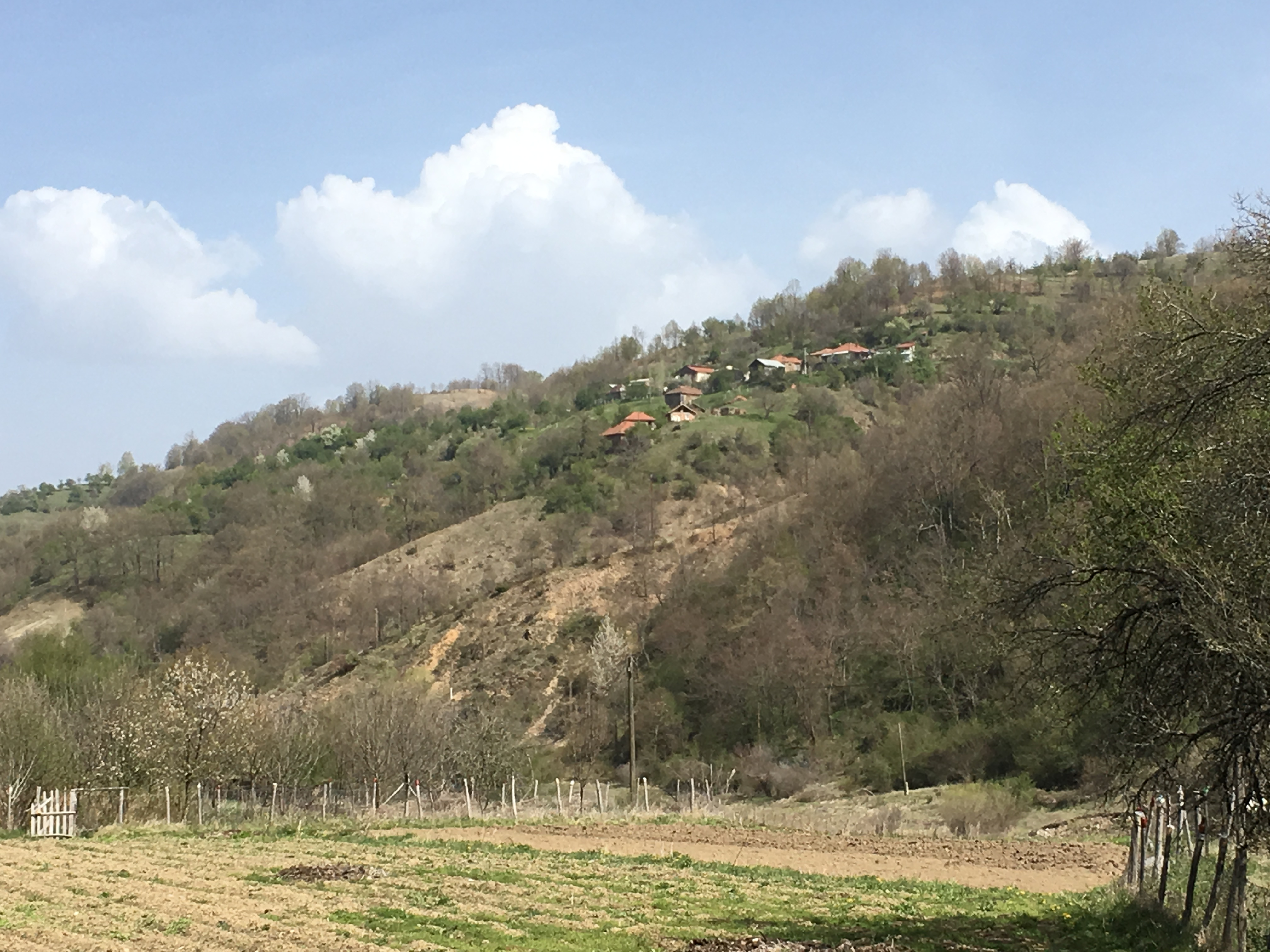 Houses in the village of Uzem